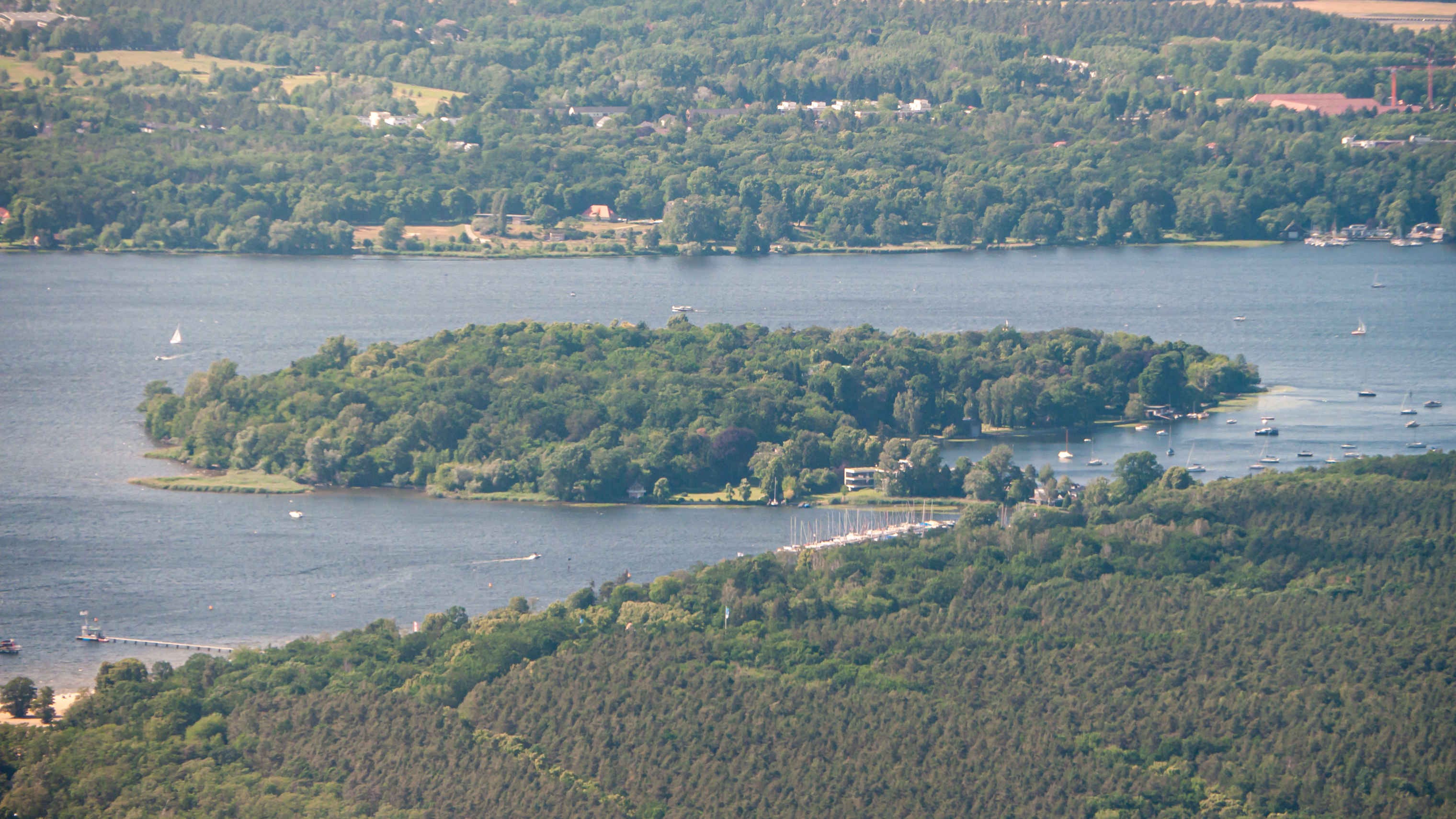 Schwanenwerder in 2019